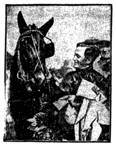 Johannes Frömming (1910-1996), German harness racing driver, with his stallion Xifra